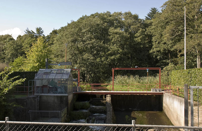 Small Dam and fish ladder, situated at Mariendal, Elling Å, Vendsyssel, Denmark